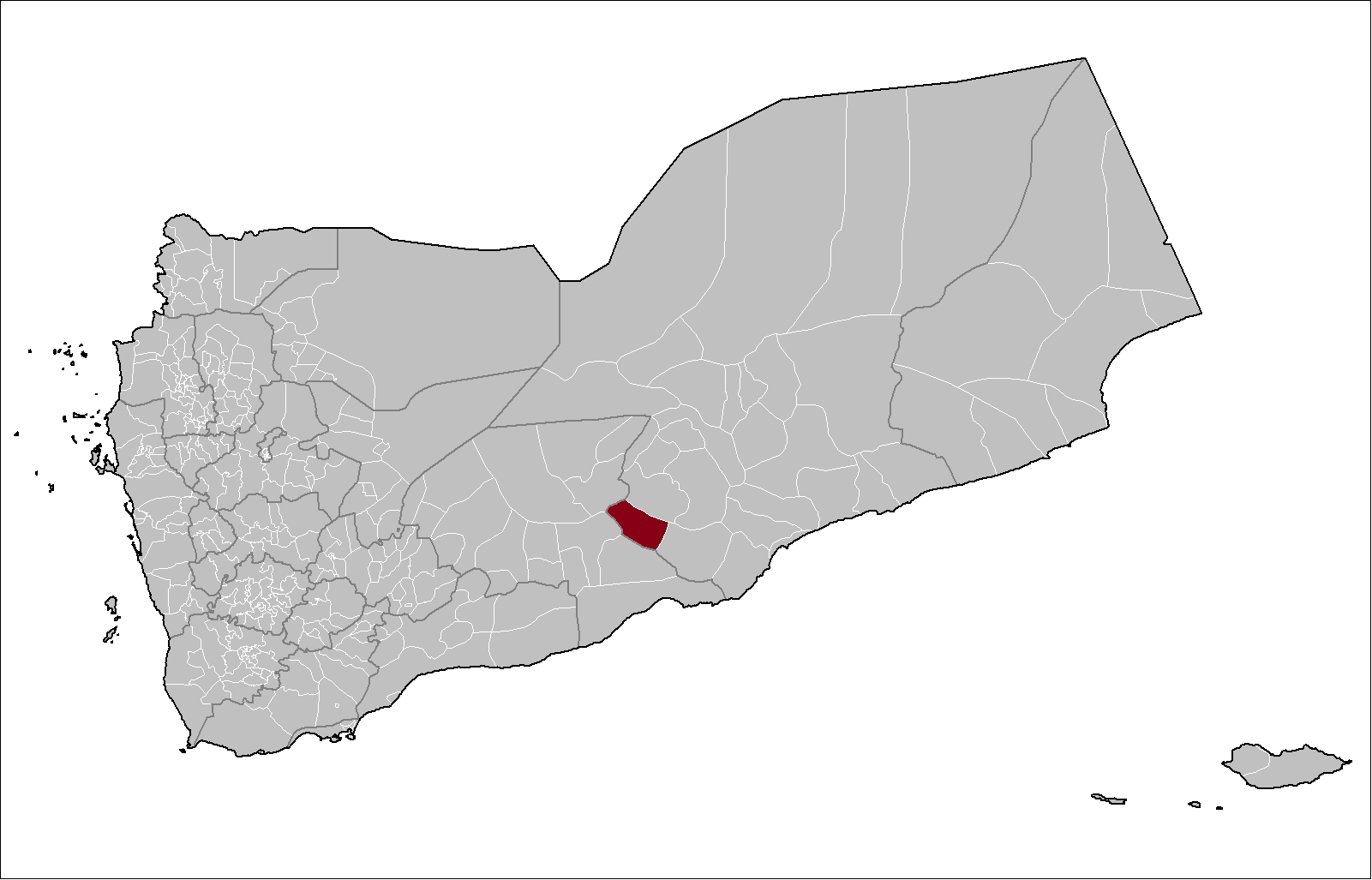 District locator of Yabuth District in Hadhramaut Governorate, Yemen.